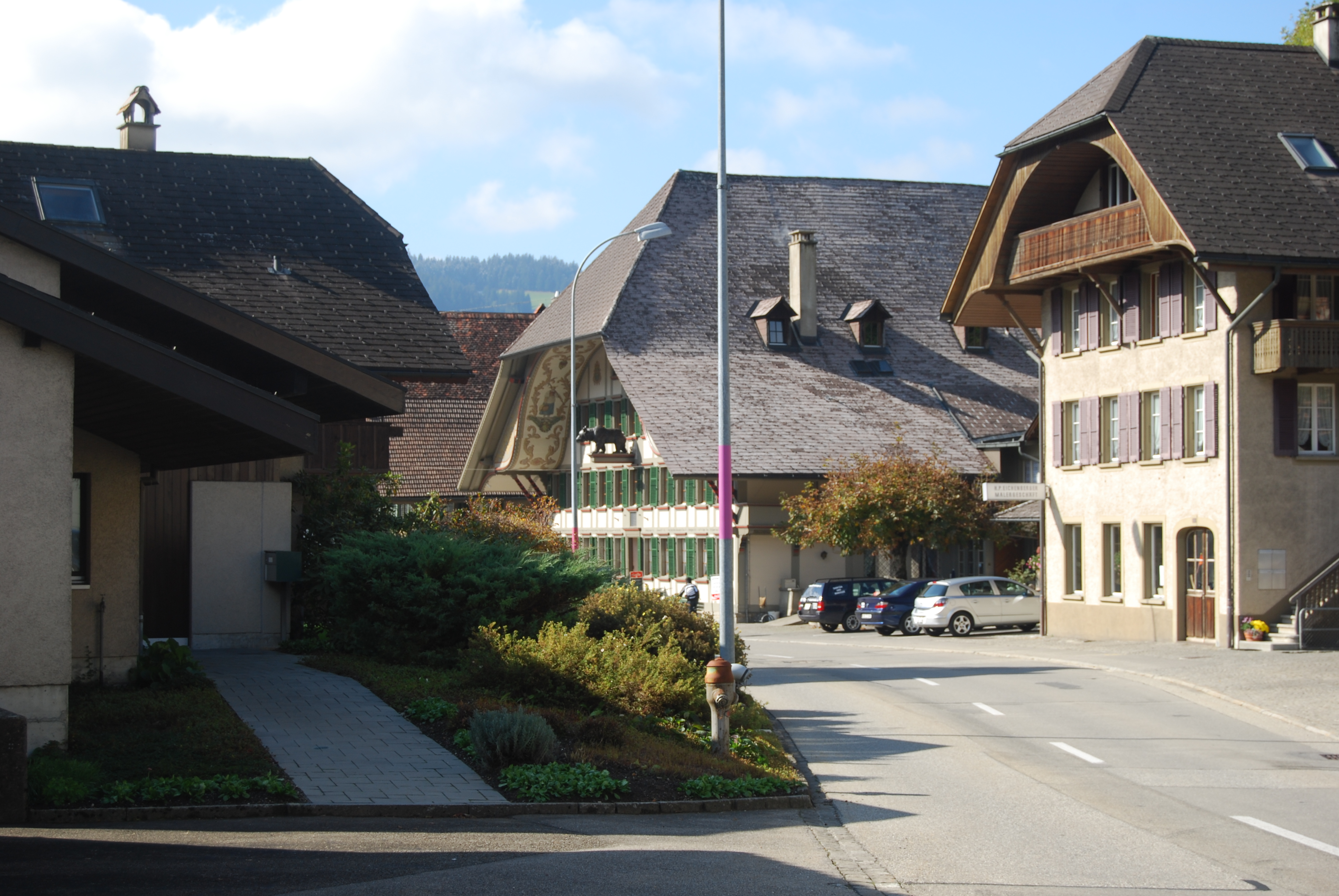 Gasthaus Bären at Trubschachen, canton of Bern, SwitzerlandEsperanto: Gastejo Bären (Urso) en Trubschachen, Kantono Berno, Svislando